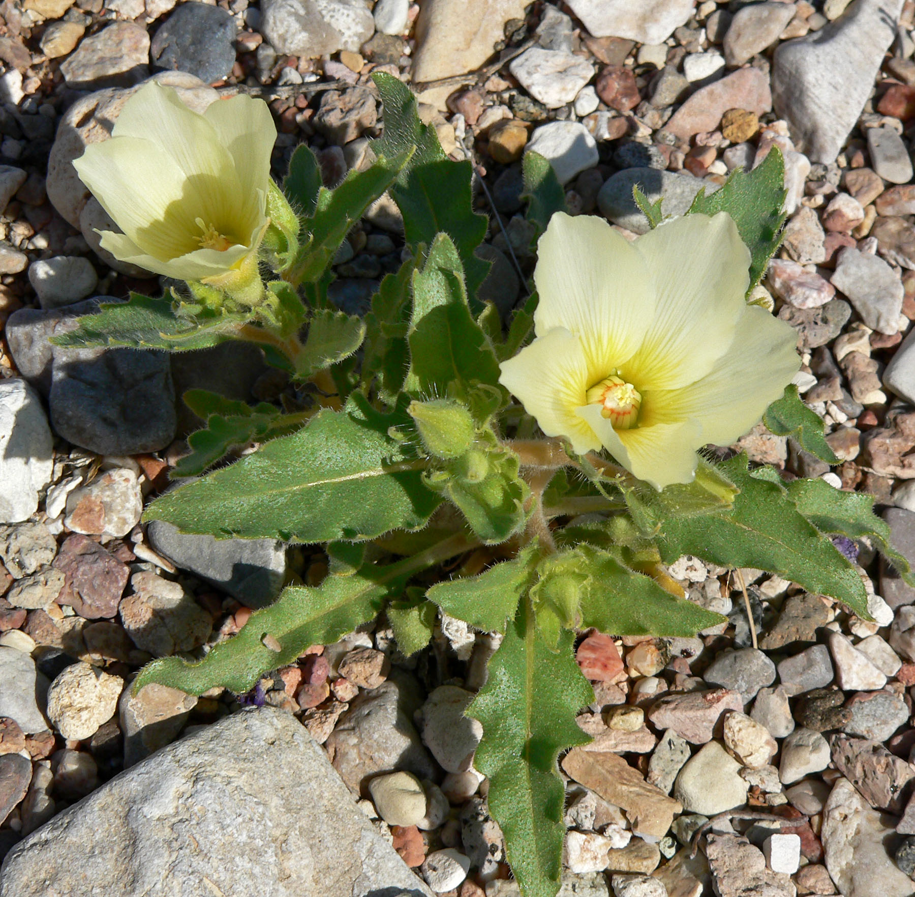 Mentzelia tricuspis in upper Gypsum Wash where Lake Mead Blvd crosses it, Lake Mead National Recreation Area, southern Nevada